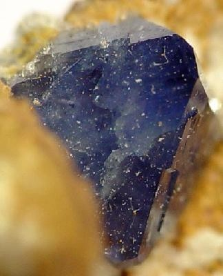 Scorodite Locality: Ojuela Mine, Mapimí, Municipio de Mapimí, Durango, Mexico (Locality at ) Size: 5.4 x 4.5 x 2.3 cm. Nestled in a vug of limonite are several crystals of glassy, gemmy, bluish-gray scorodite which reach .7 cm across. Ex. Martin Zinn Collection.